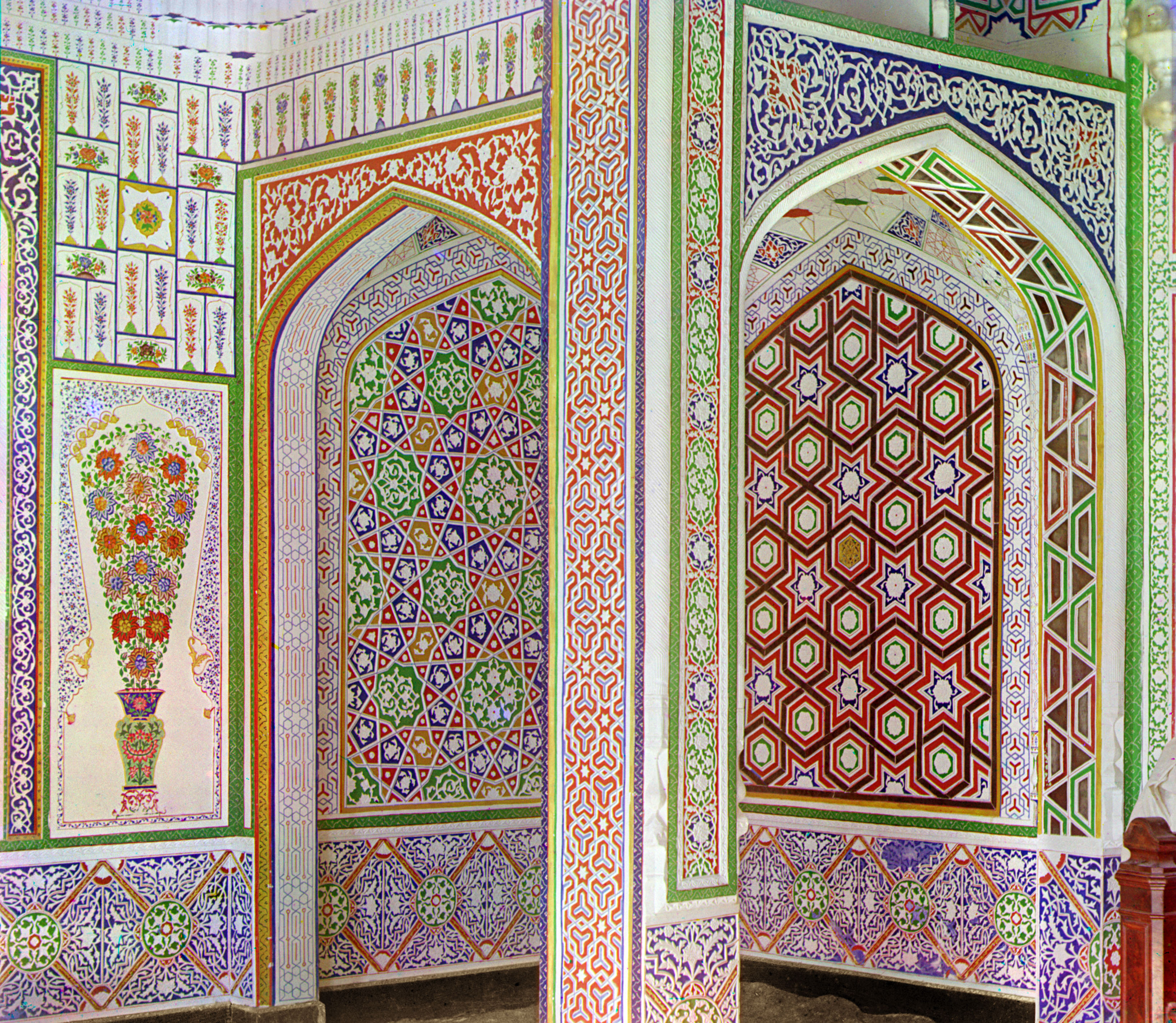 Example of mosaics on the walls in the home of a wealthy Sart. On the outskirts of Samarkand